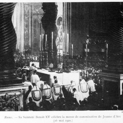 Canonization of Jeanne d'Arc 16 May 1920 by Pope Benedict XV in St.Peter’s - praying